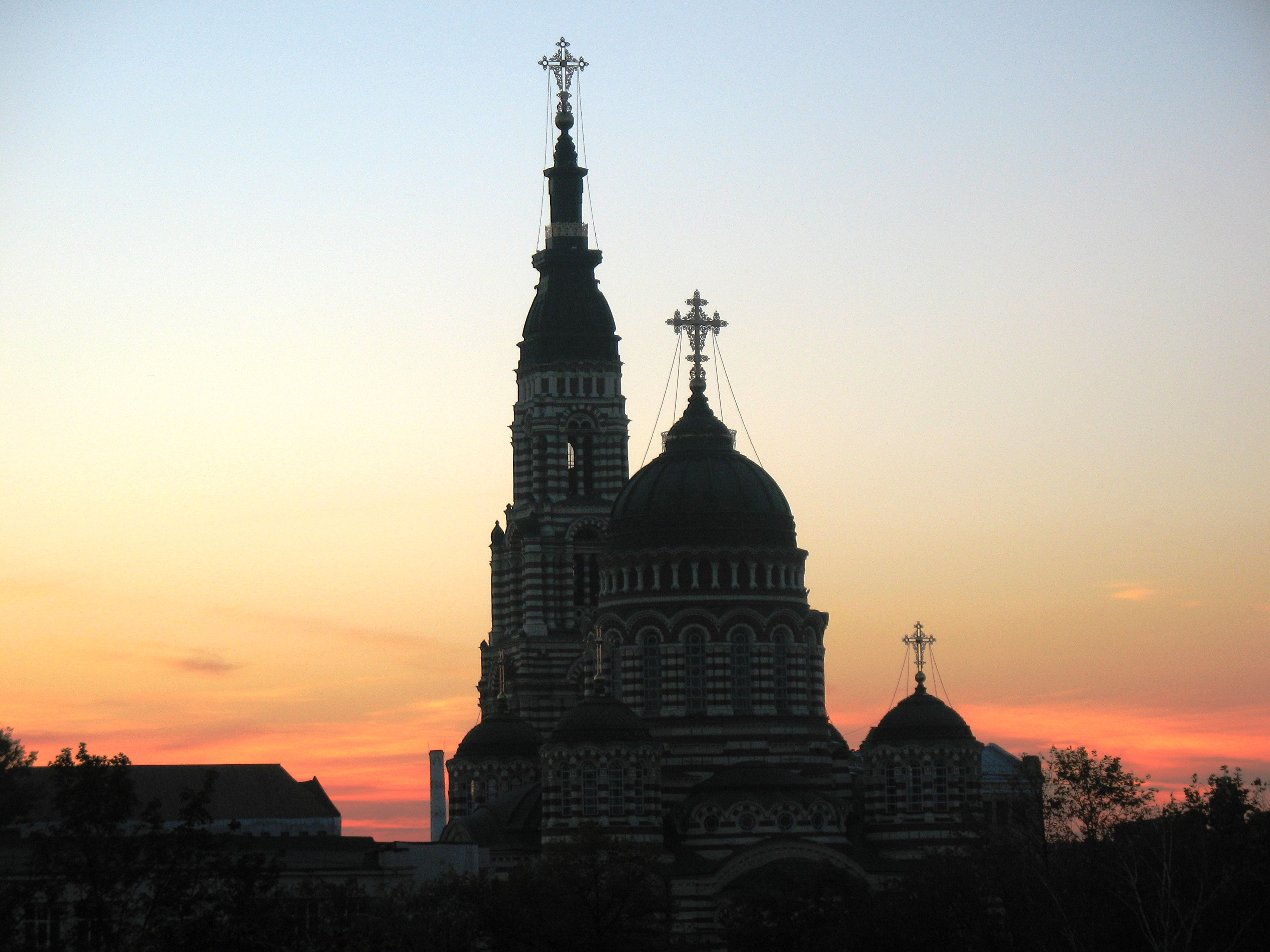 Blagoveschensky Cathedral in Kharkov after sunset.